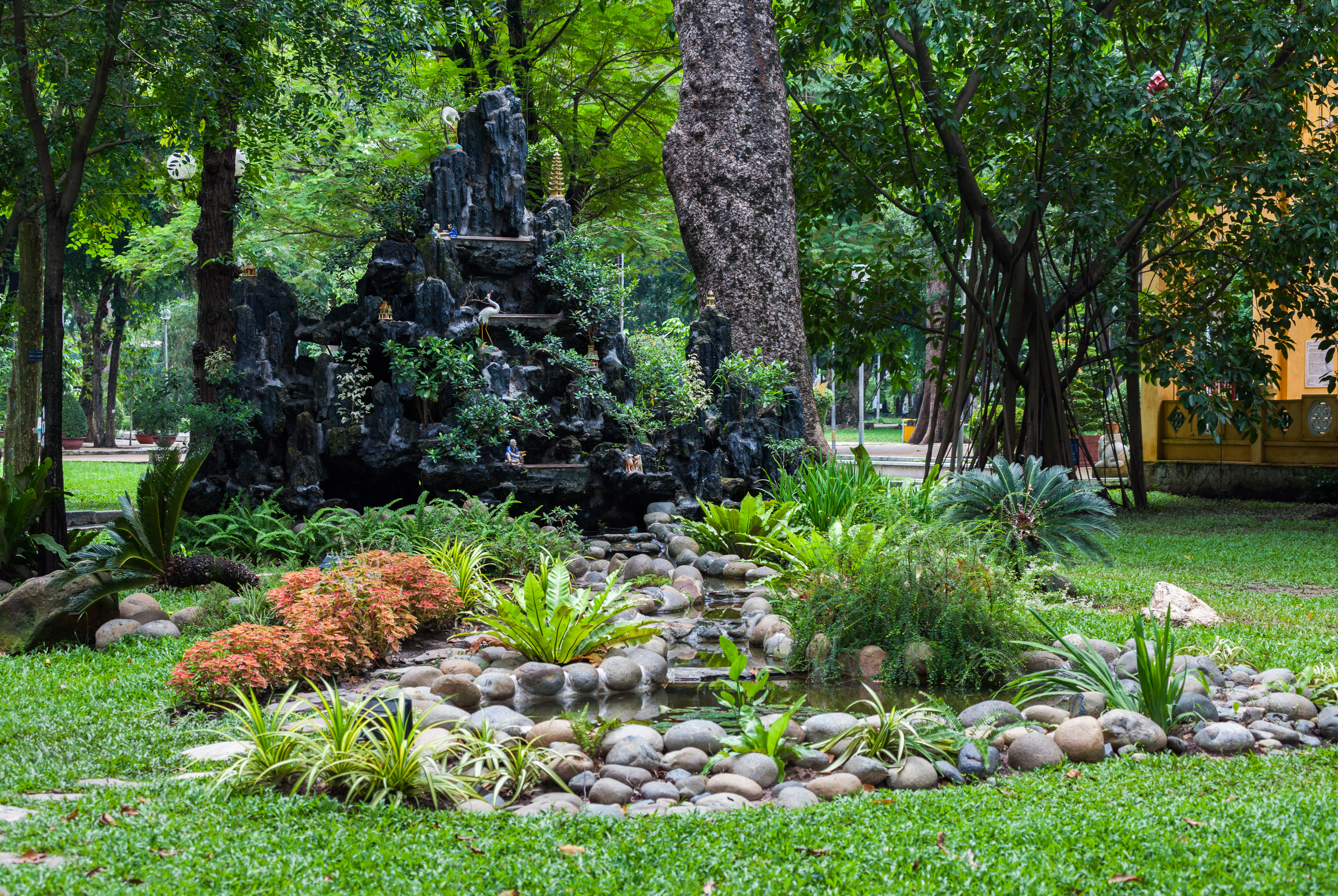 Tao Dan Park, Ho Chi Minh City, Vietnam